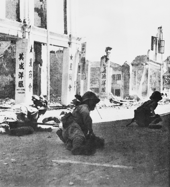 JAPANESE TROOPS CROUCH LOW IN THE STREET DURING THE FINAL STAGES OF THEIR INVASION OF THE MALAYAN PENINSULA WHICH CULMINATED IN THE SURRENDER OF ALL BRITISH FORCES, AND THE OCCUPATION OF THE BRITISH NAVAL BASE ON SINGAPORE ISLAND.